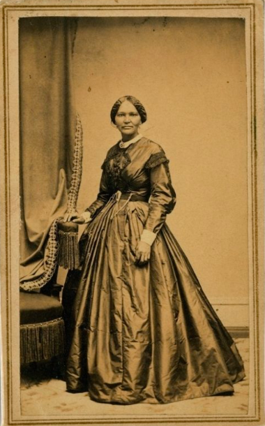 Elizabeth Keckley, 1861, dressmaker to Mary Todd Lincoln, Moorland-Spingarn Research Center, Howard University